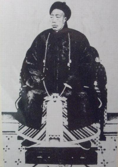 Li Lianying (1848 - 1911), a famous imperial eunuch of Qing Dynasty, China.